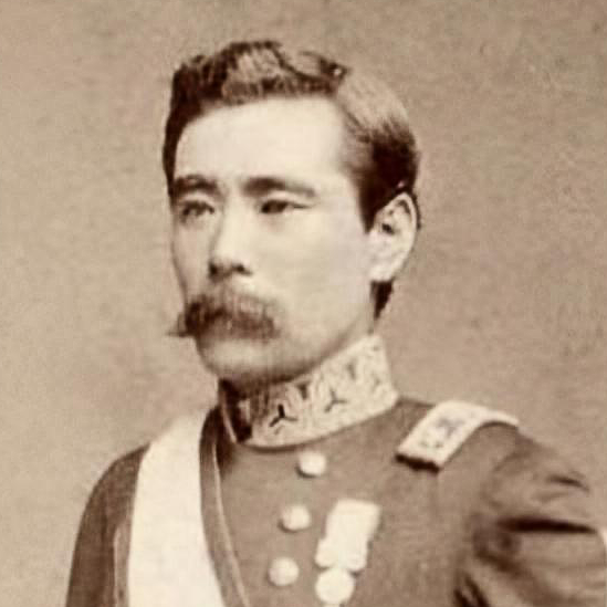 Portrait of Saigo Tsugumichi, 1876